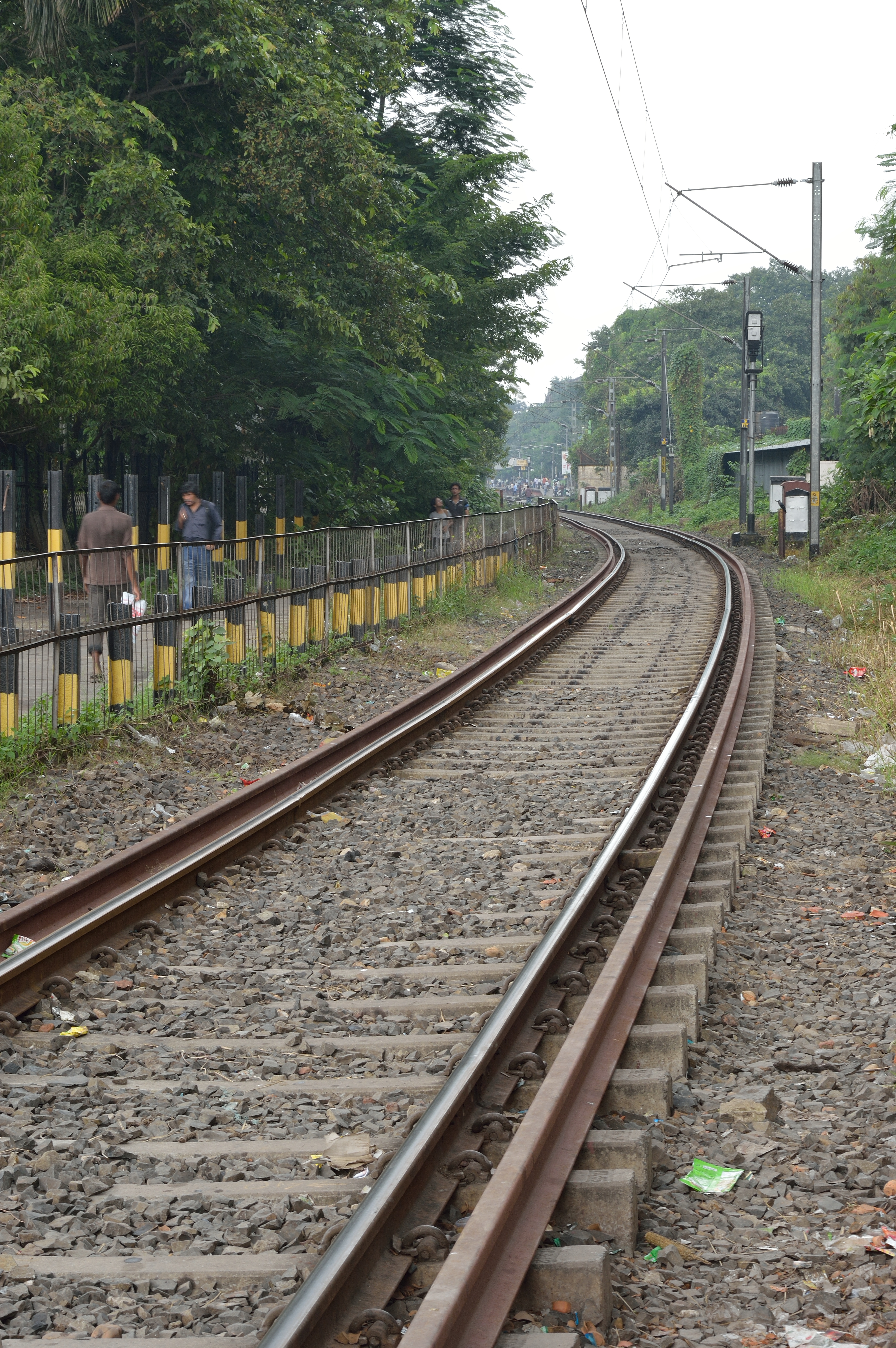 Photographed in Kolkata.